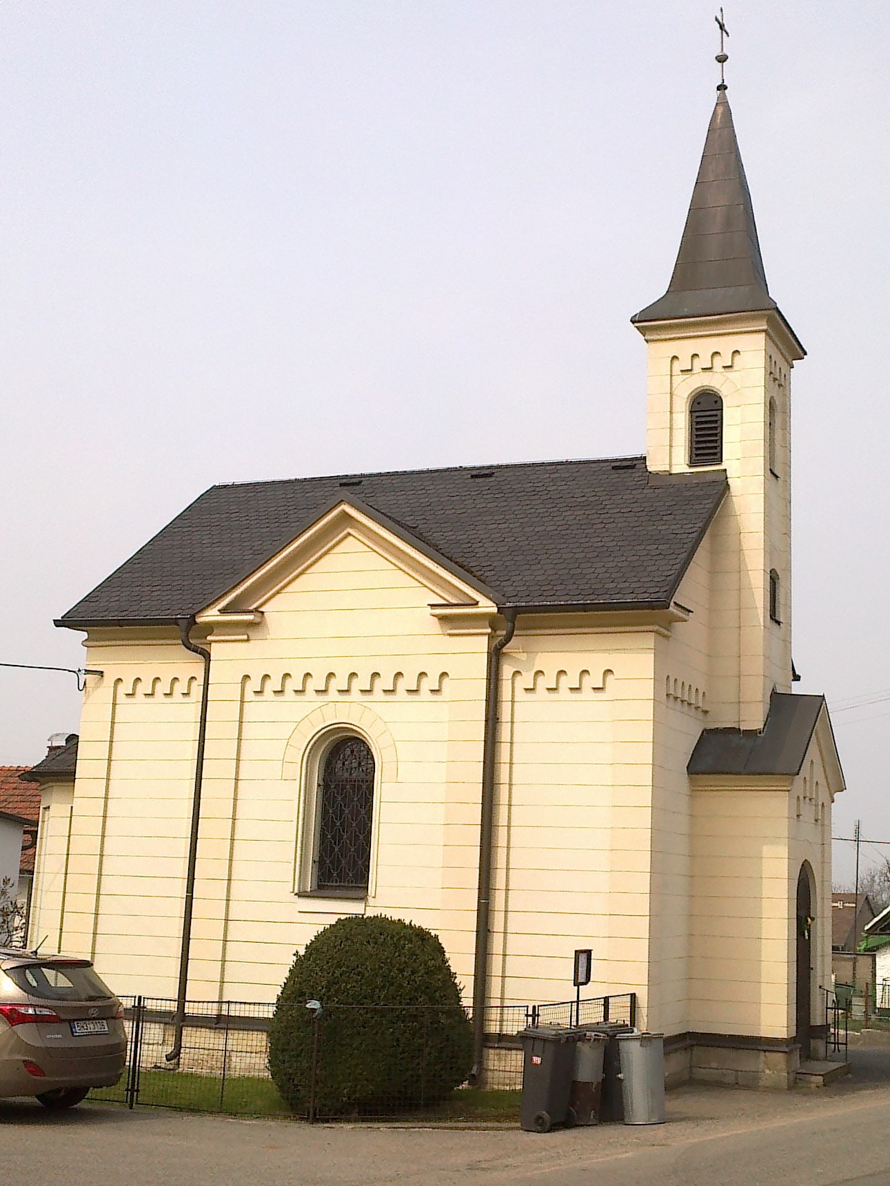 Pavlišov - chapel of Saint John of Nepomuk